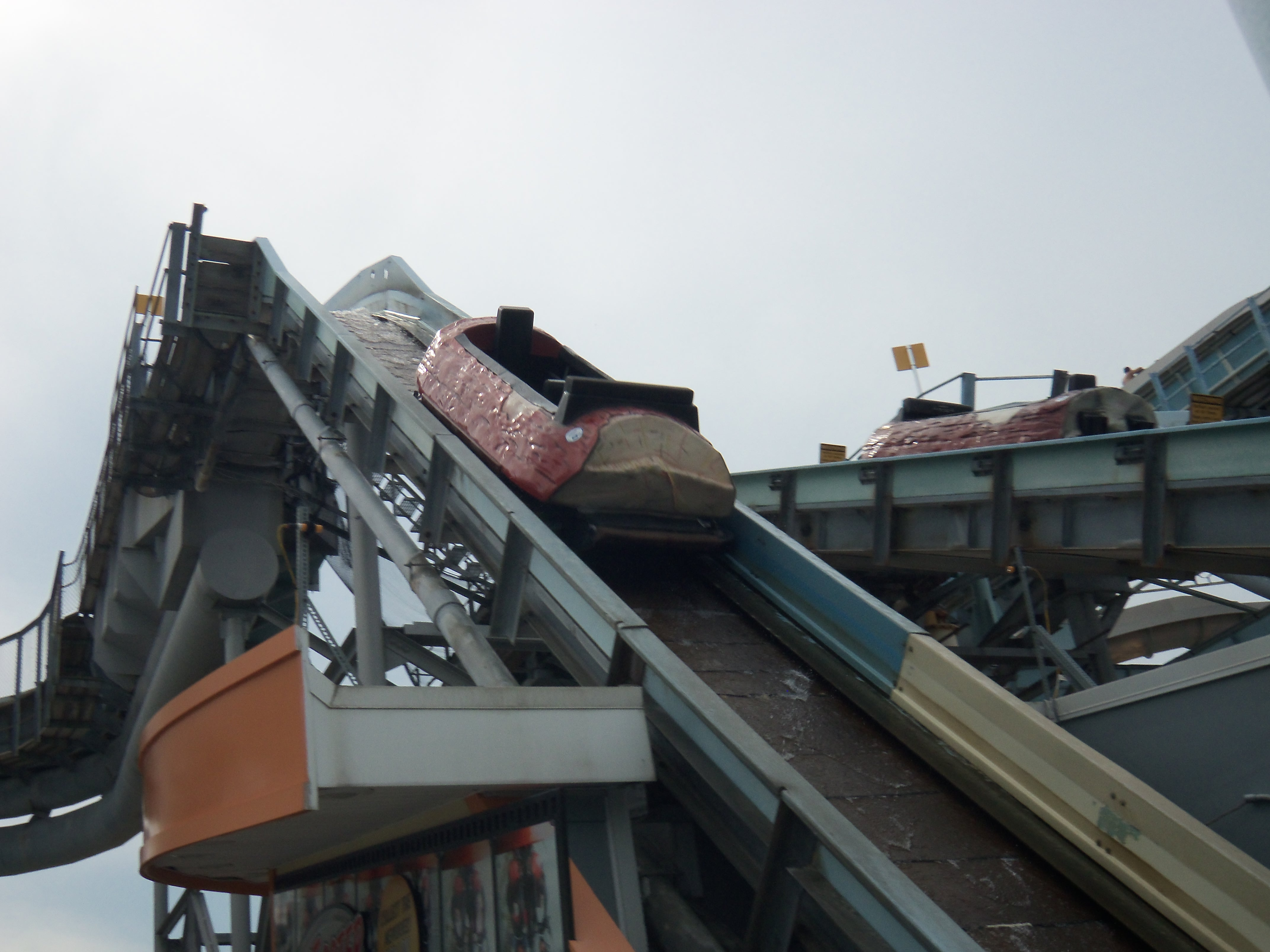 Second Drop on Zoom Phloom